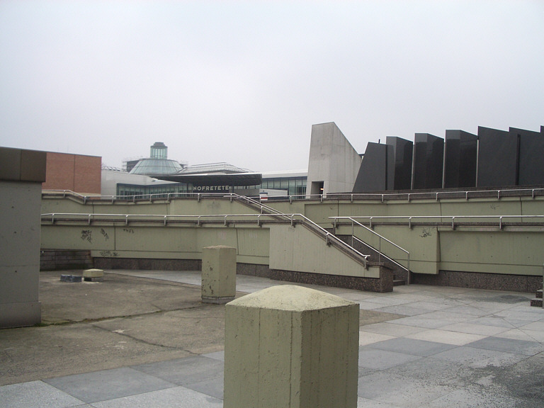 Berlin, Kulturforum: detail of the central square, 2005